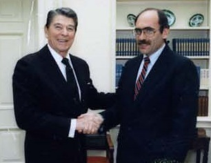 Ronald Reagan and Arnold Lewis Raphel in Oval Office in 1987